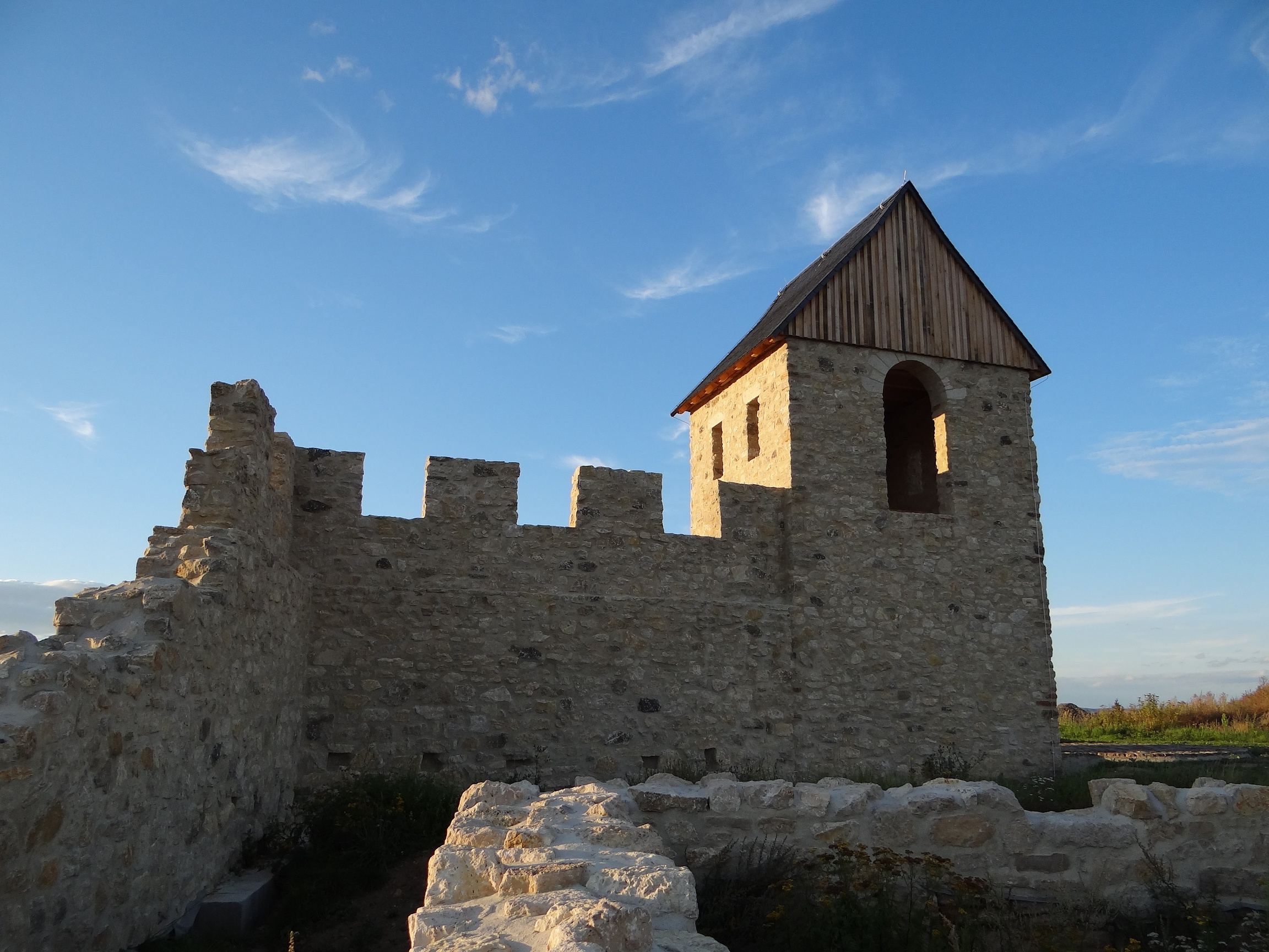 Archaeological Park Kaiserpfalz Werla - reconstructed "Westturm" view from south.